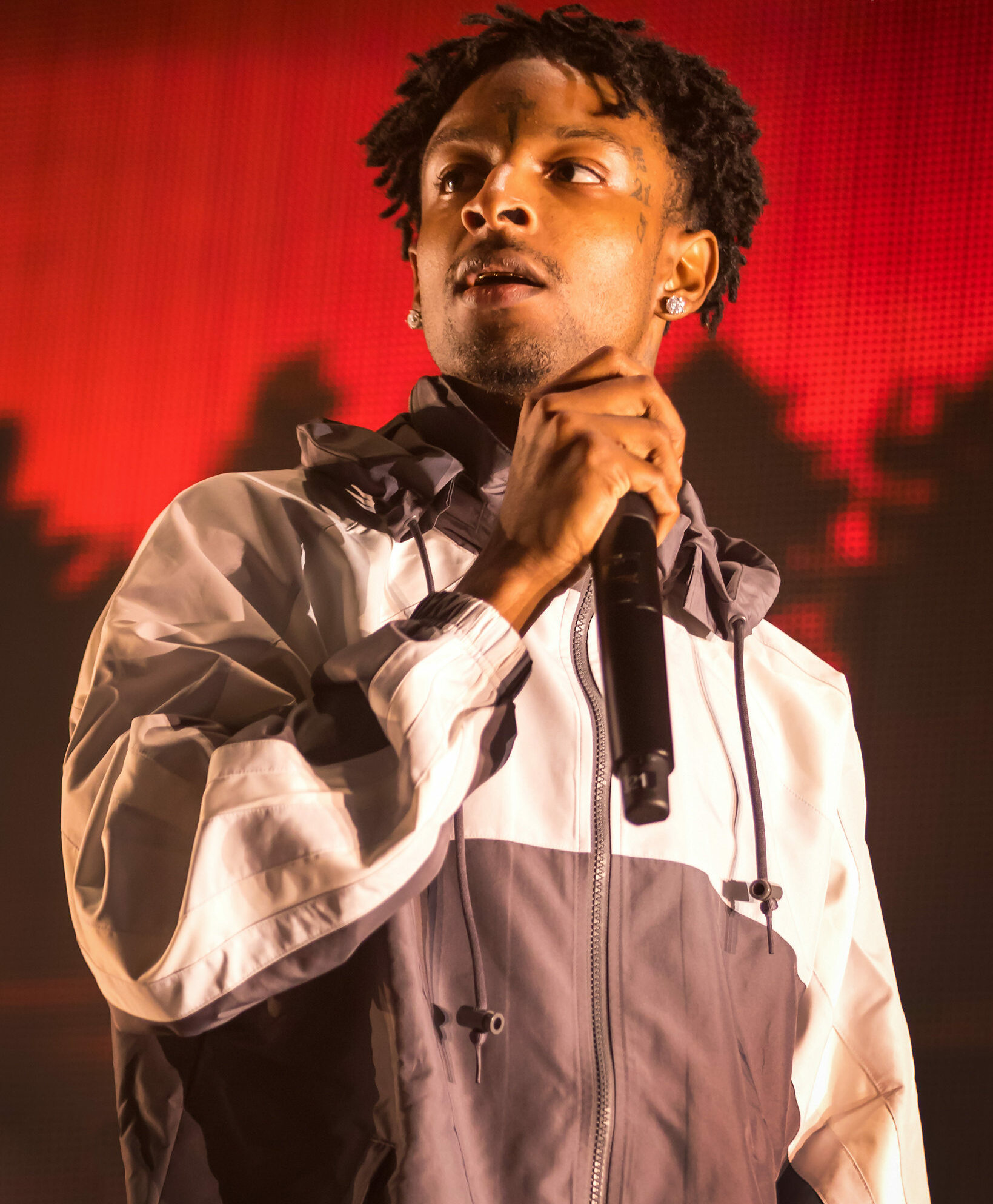 21 Savage performing at the Austin360 Amphitheater in Austin, Texas on June 16, 2018.